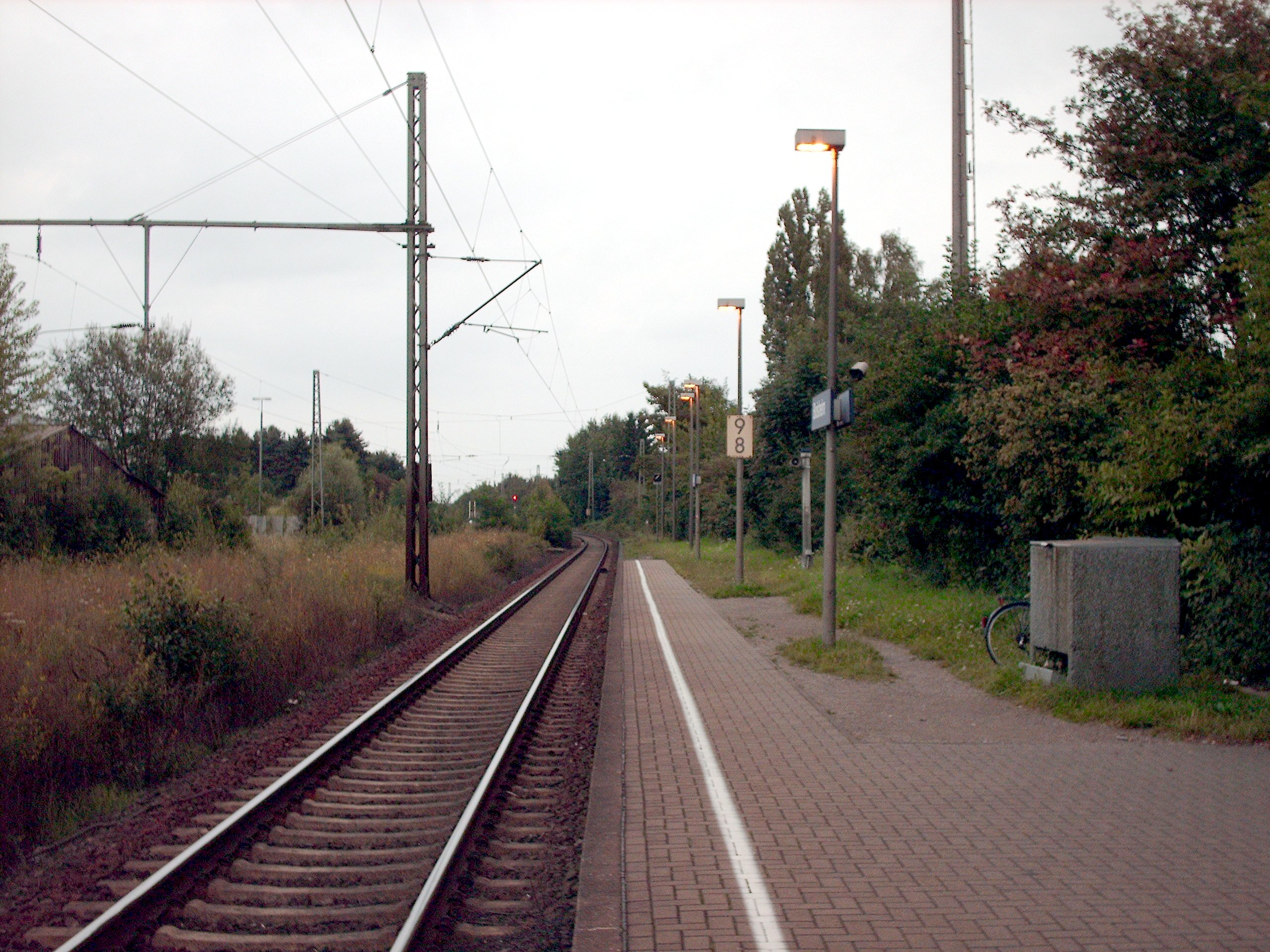 Boisheim station, Viersen, Germany check usage